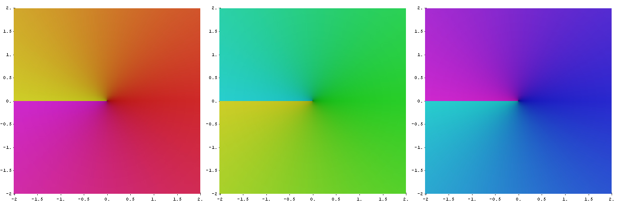 function z^(1/3), z^(1/3)*Exp[I*(1/3)*2*Pi] and z^(1/3)*Exp[I*(2/3)*2*Pi] in the complex plane